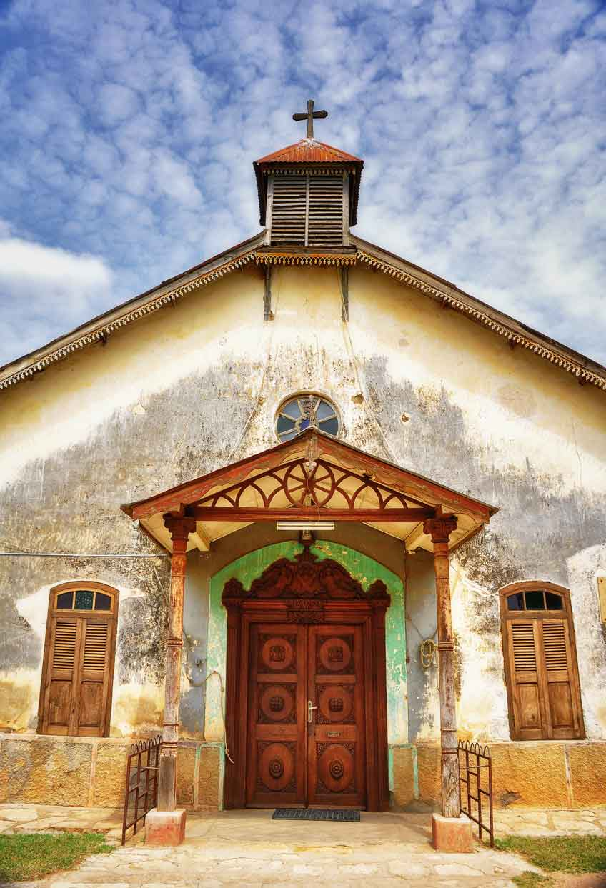 Catholic Church, Ethiopia